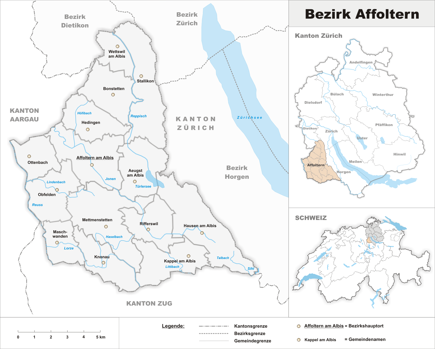 Municipalities in the district of Affoltern